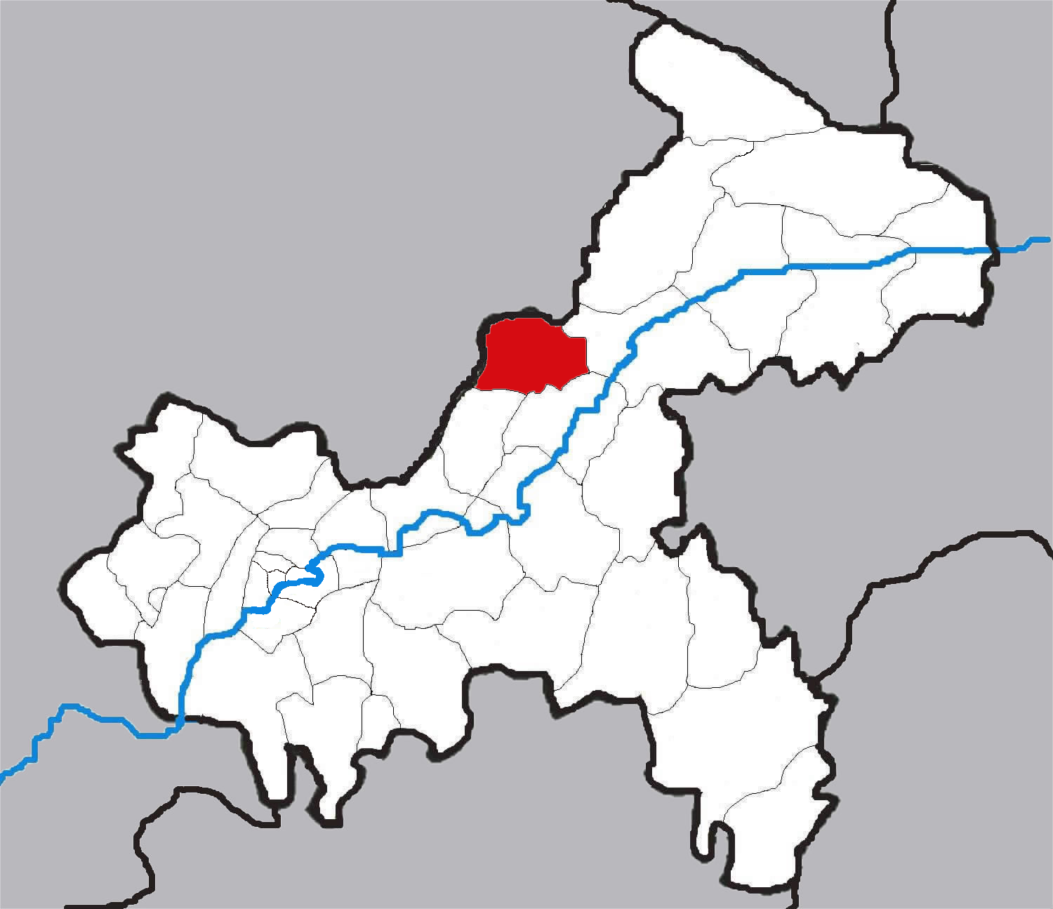 Administration maps of Chongqing, China